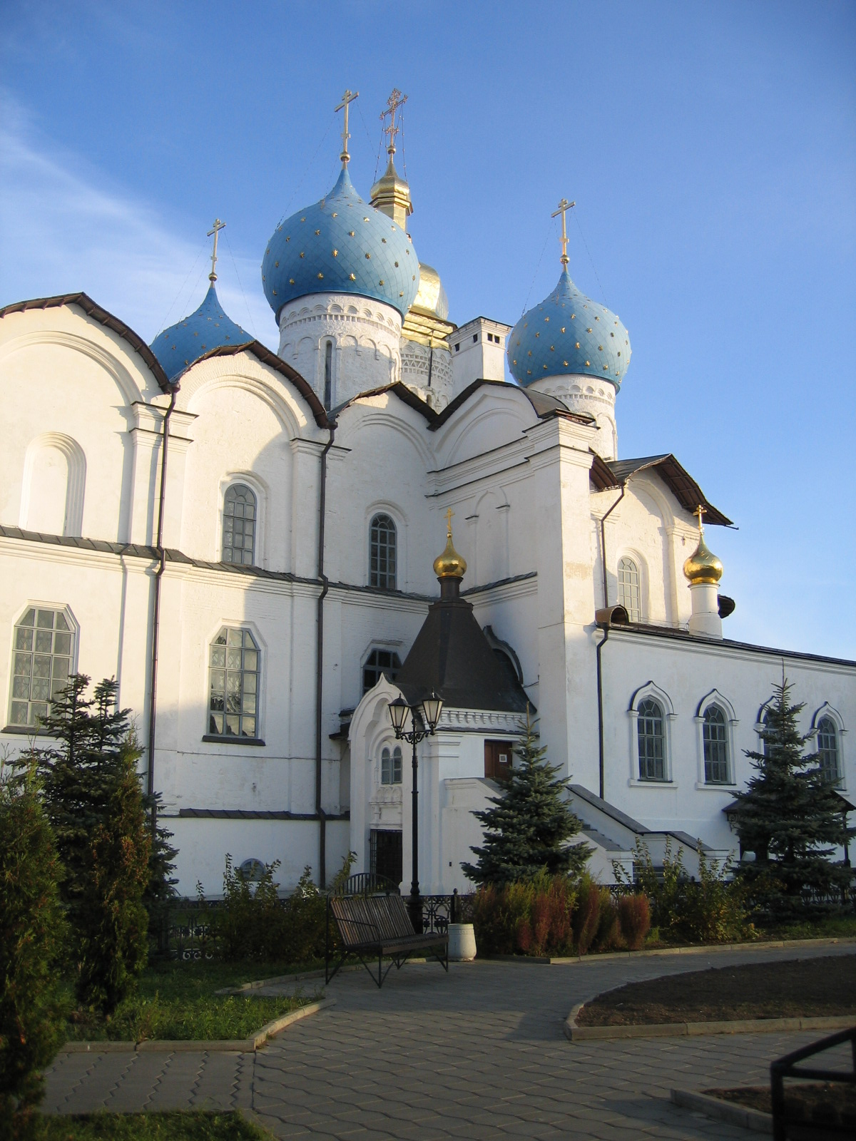 Church in the kremlin of Kazan, Russia.